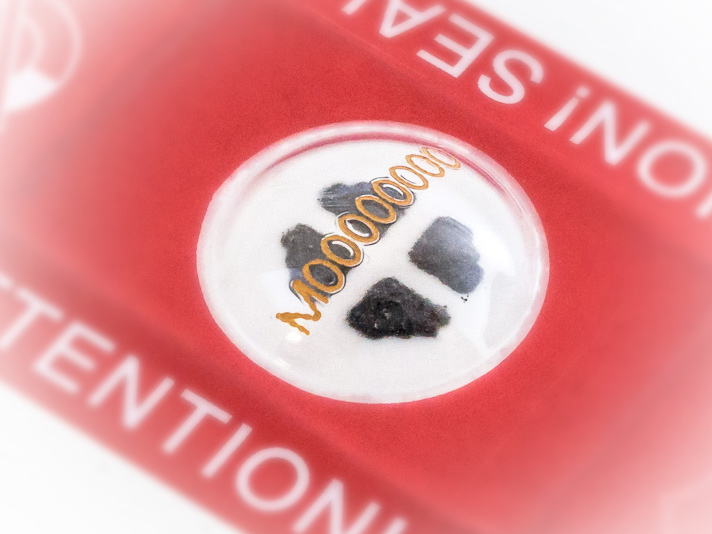 gstantimagneticseal